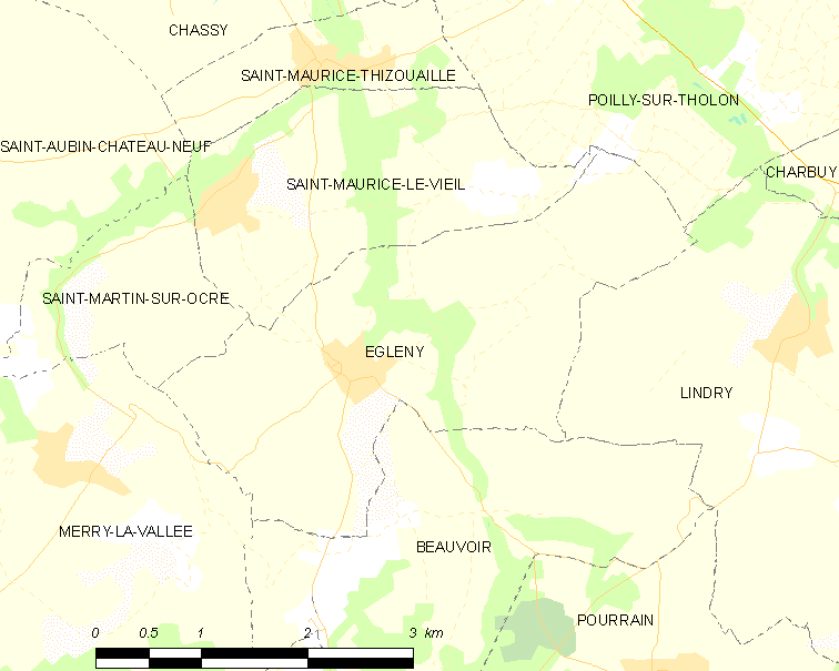 Map of French municipality Égleny